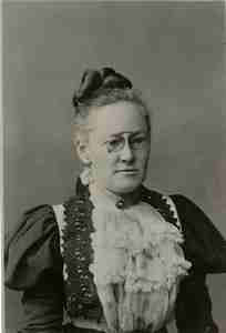 Fannie Farmer around 1900 (Courtesy of the Boston Public Library)